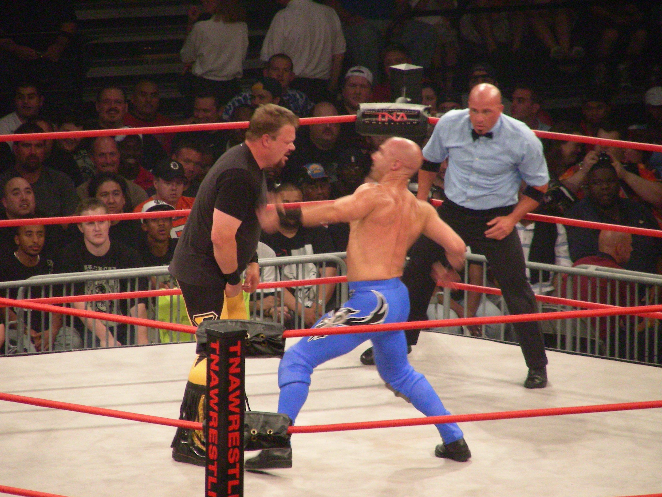 winner recieves a spot on the TNA roster!